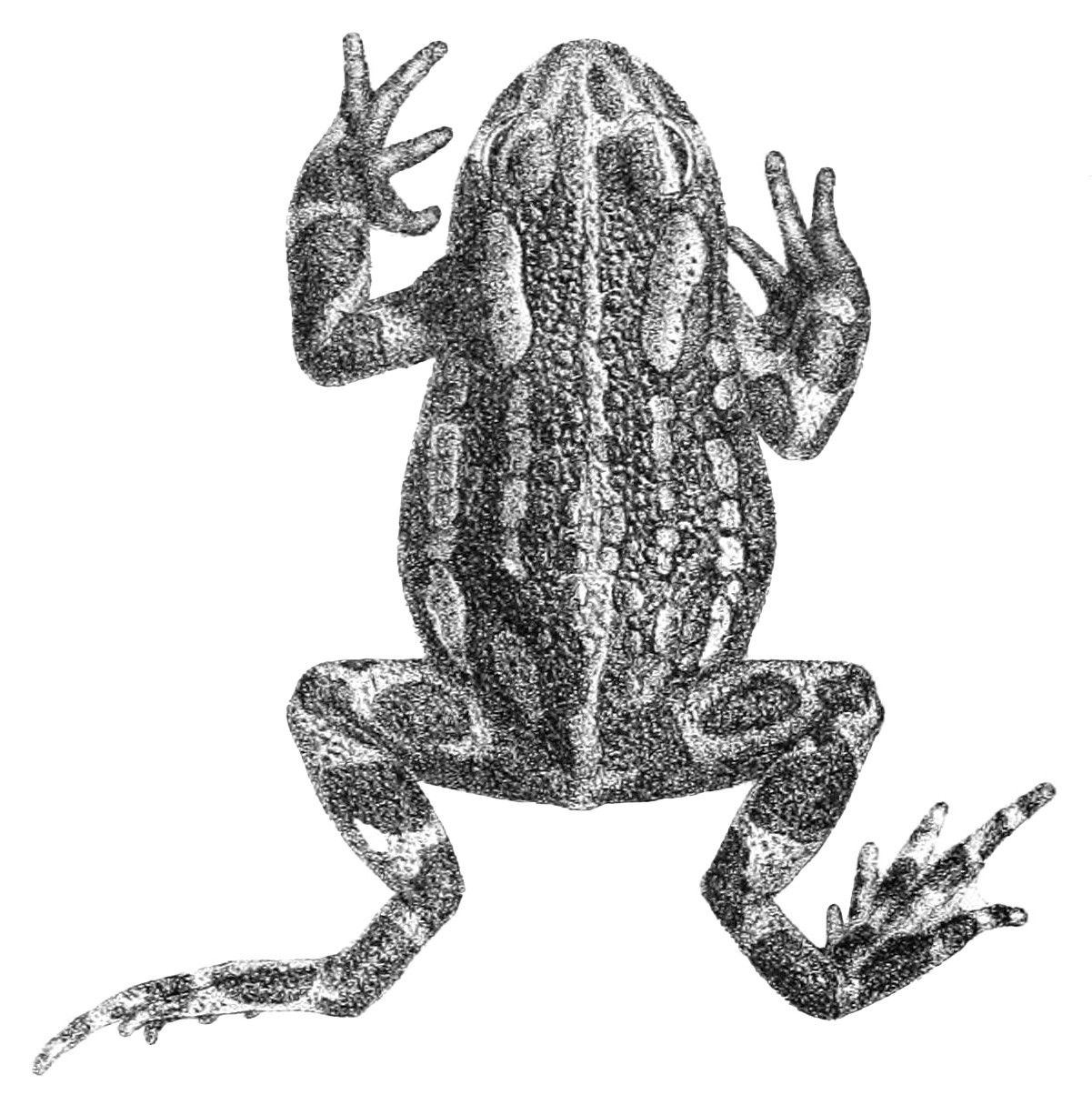 Bufo latastii = Pseudepidalea latastii